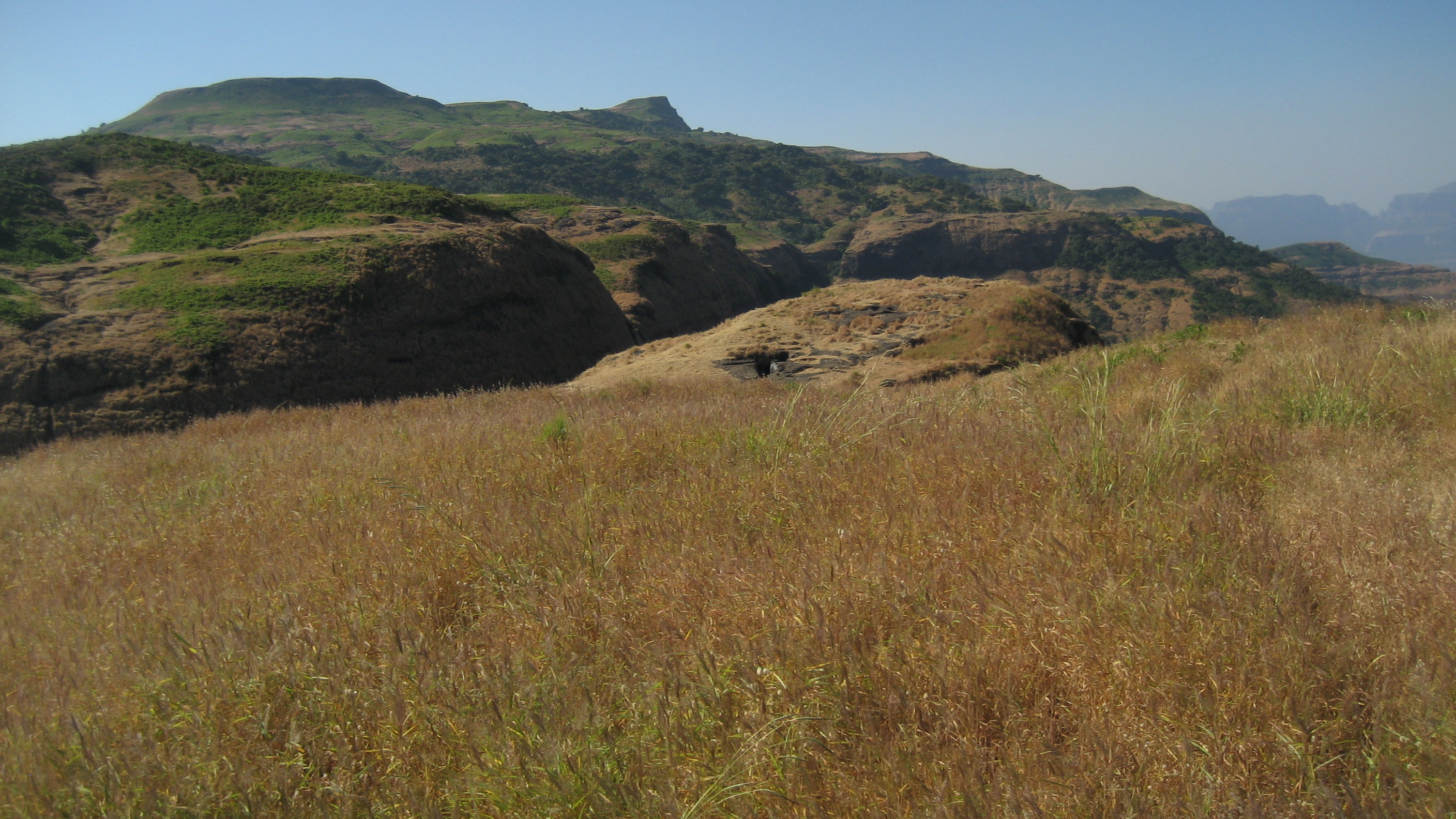 This is the view of Ghanchakkar pleateau from top of Bhairavgad near Shirpunje village.Bhairavgad is the neighbour to Ghanchakkar.In Maharashtra there are 4 mountains named Bhairavgad